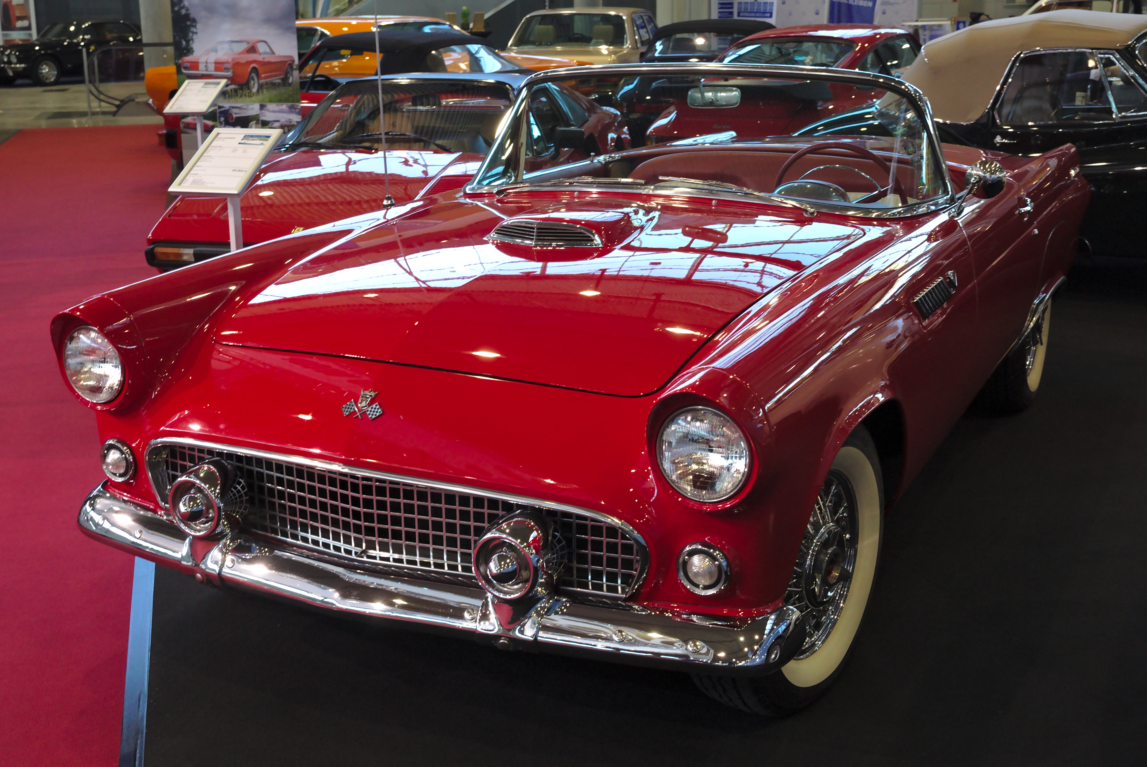 Ford Thunderbird at Retro Classics 2019